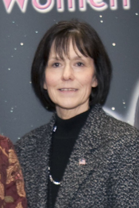 Judith Bruner at the NASA Goddard Space Flight Center in 2011